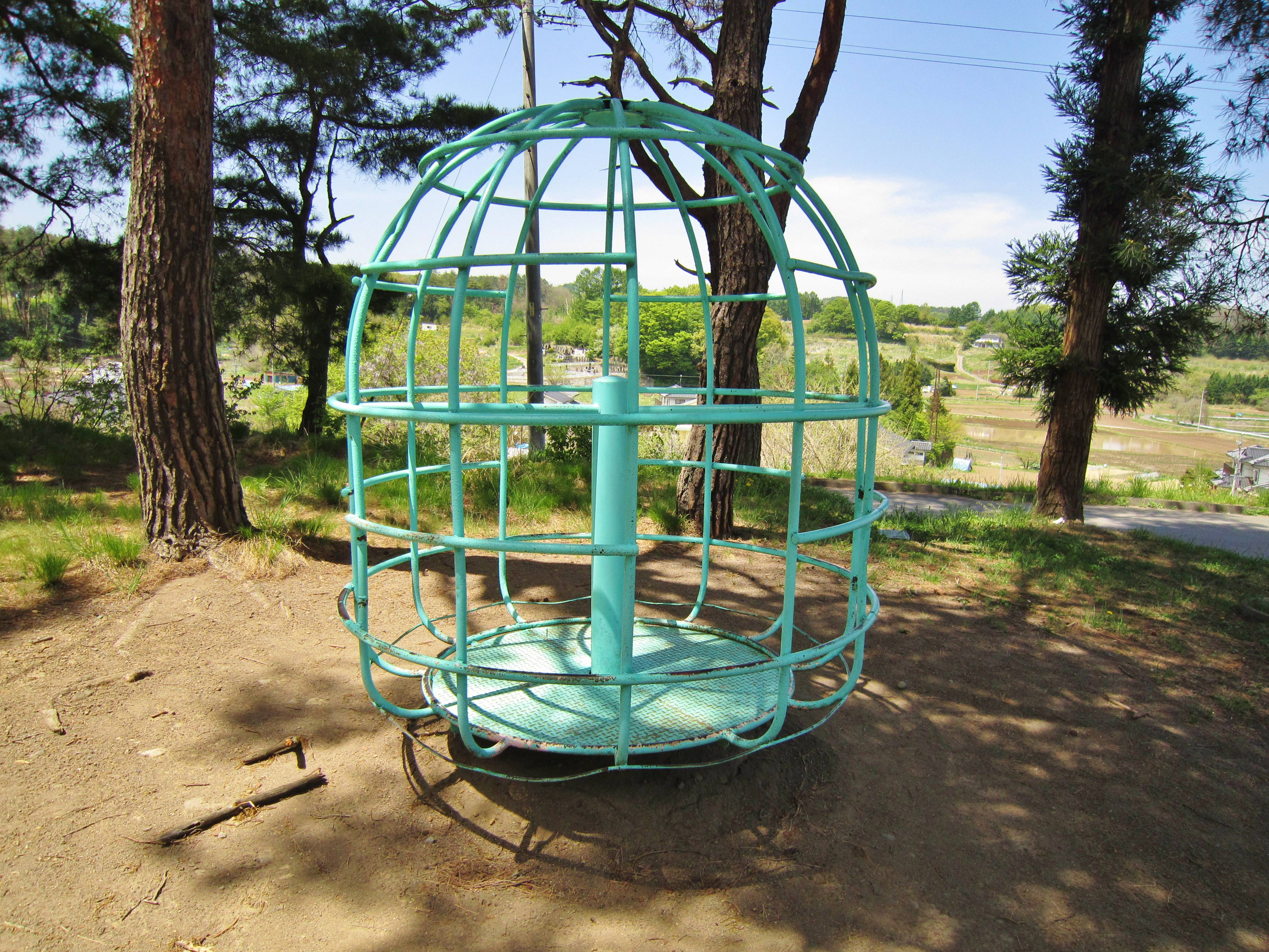 revolving jungle gym.